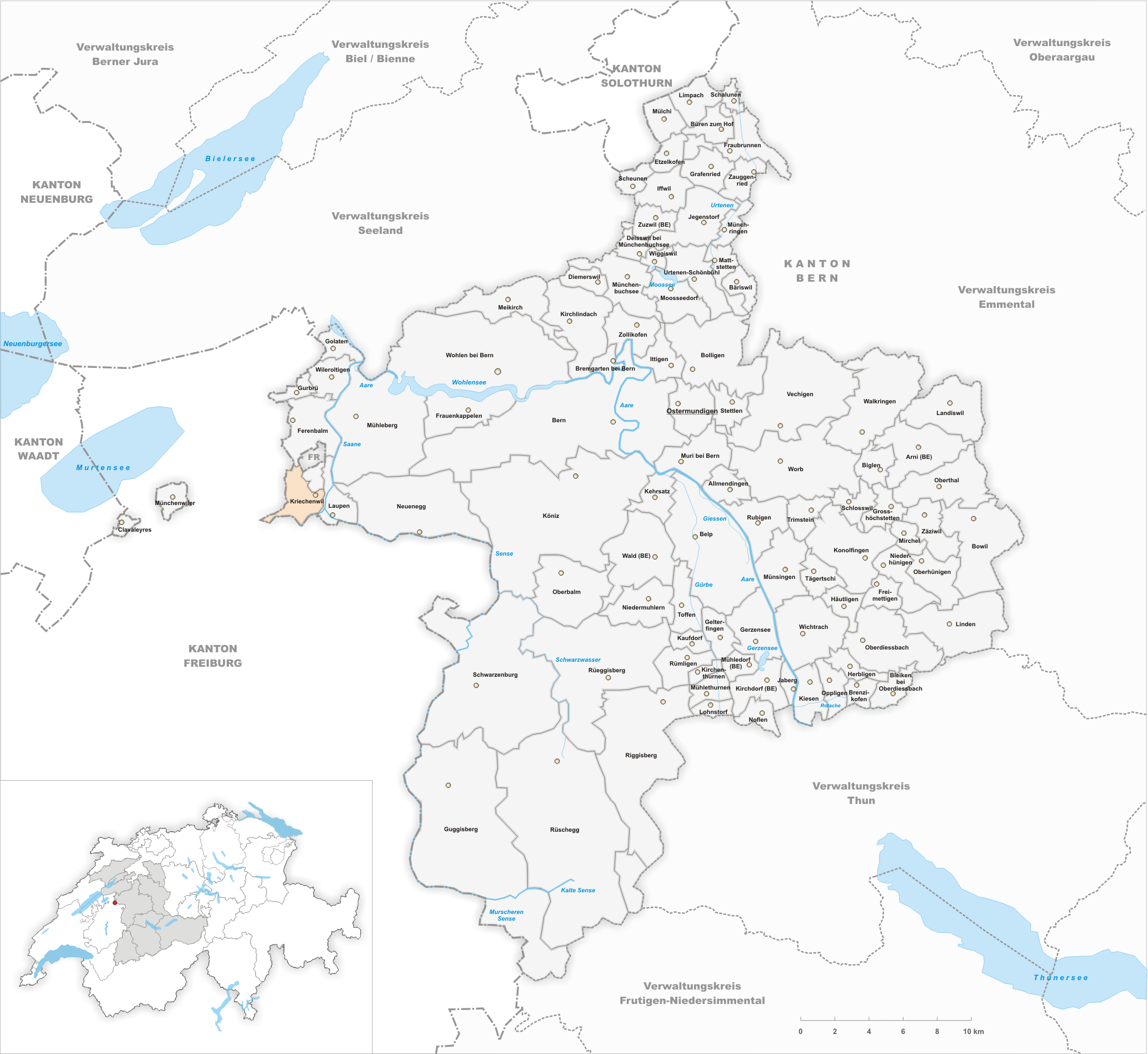 Municipality Kriechenwil